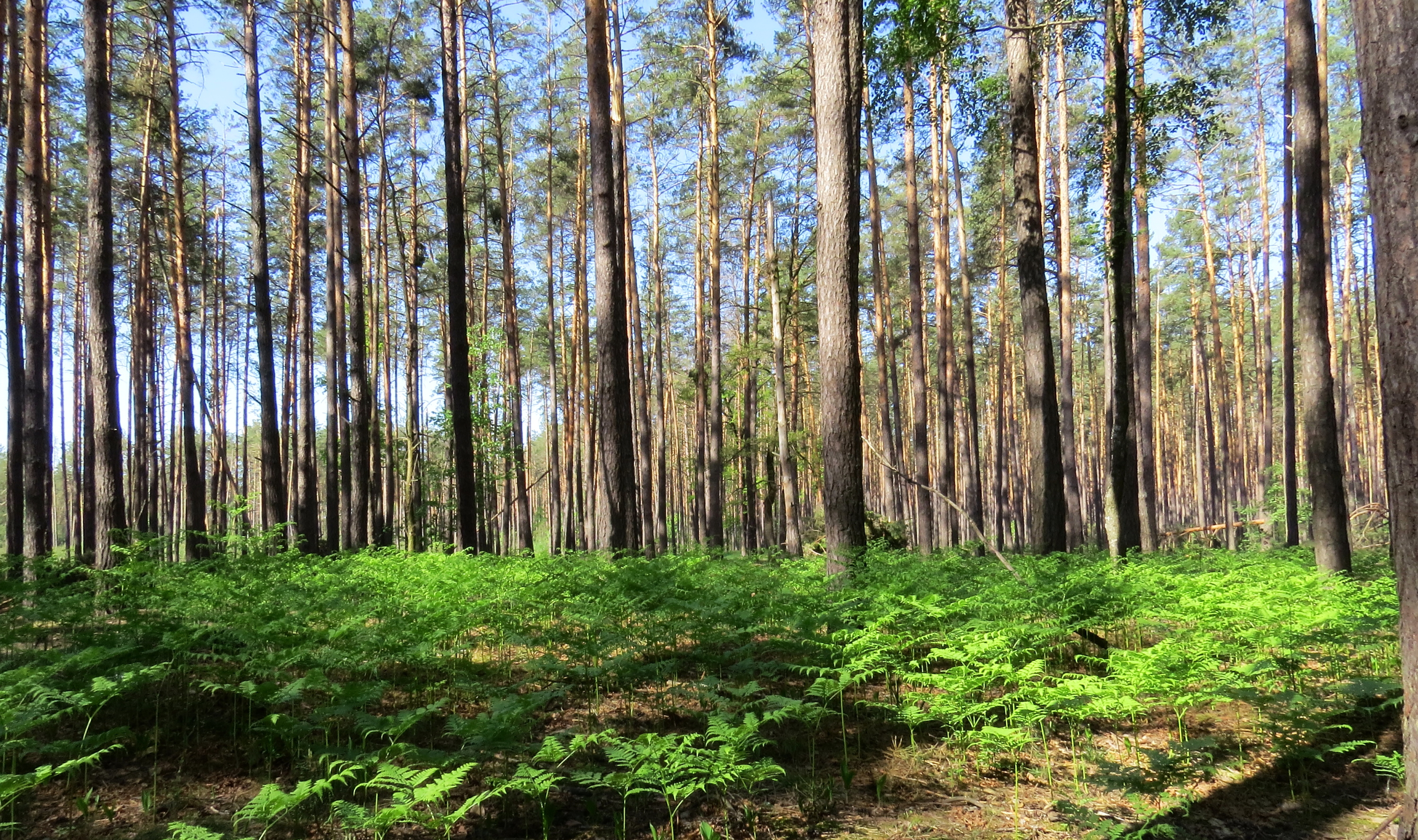 Pine forest near Klavdievo, Borodianka Raion, Kiev Oblast, Ukraine